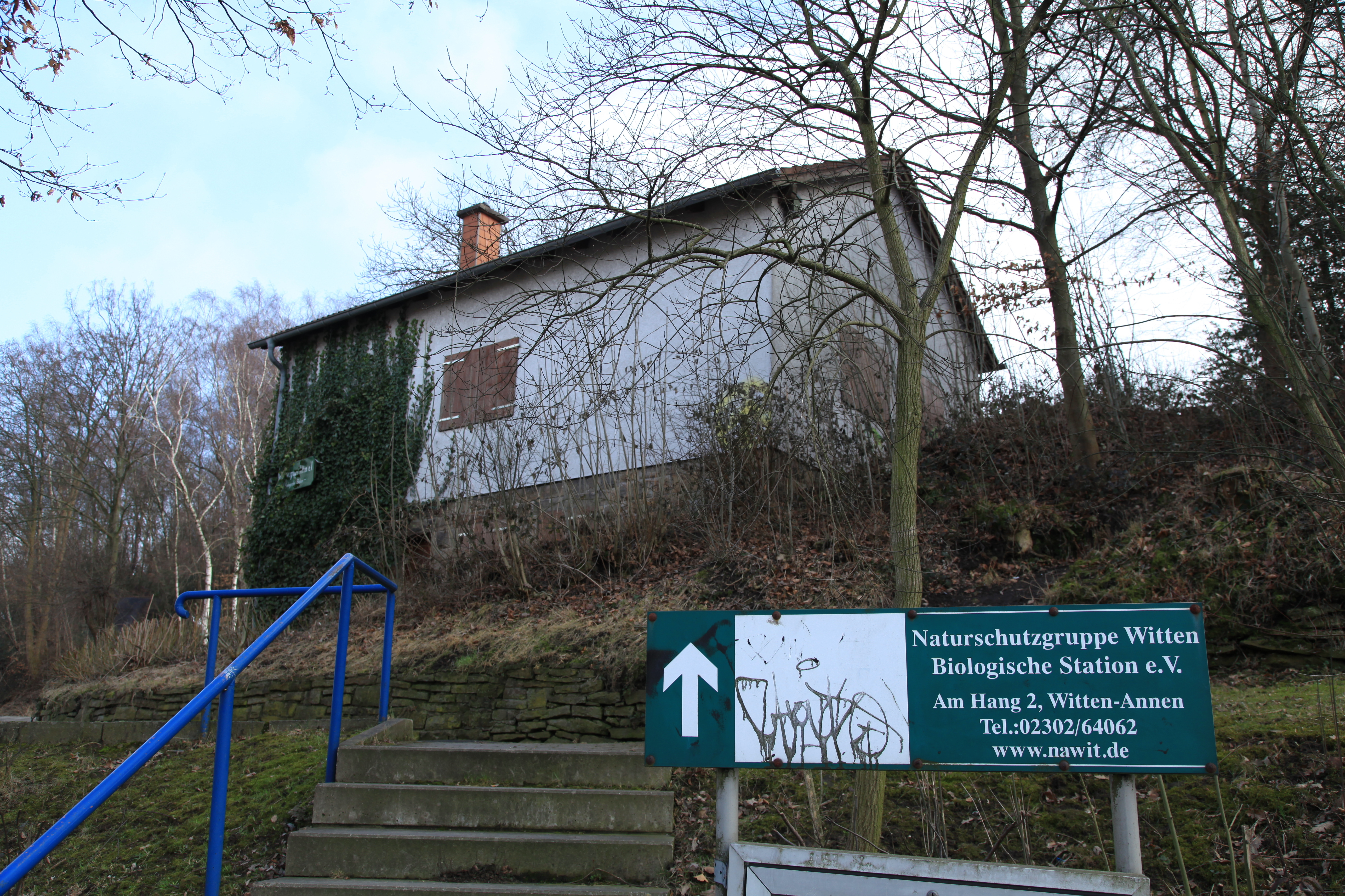 Biologic Station Witten, conservation institute in Witten